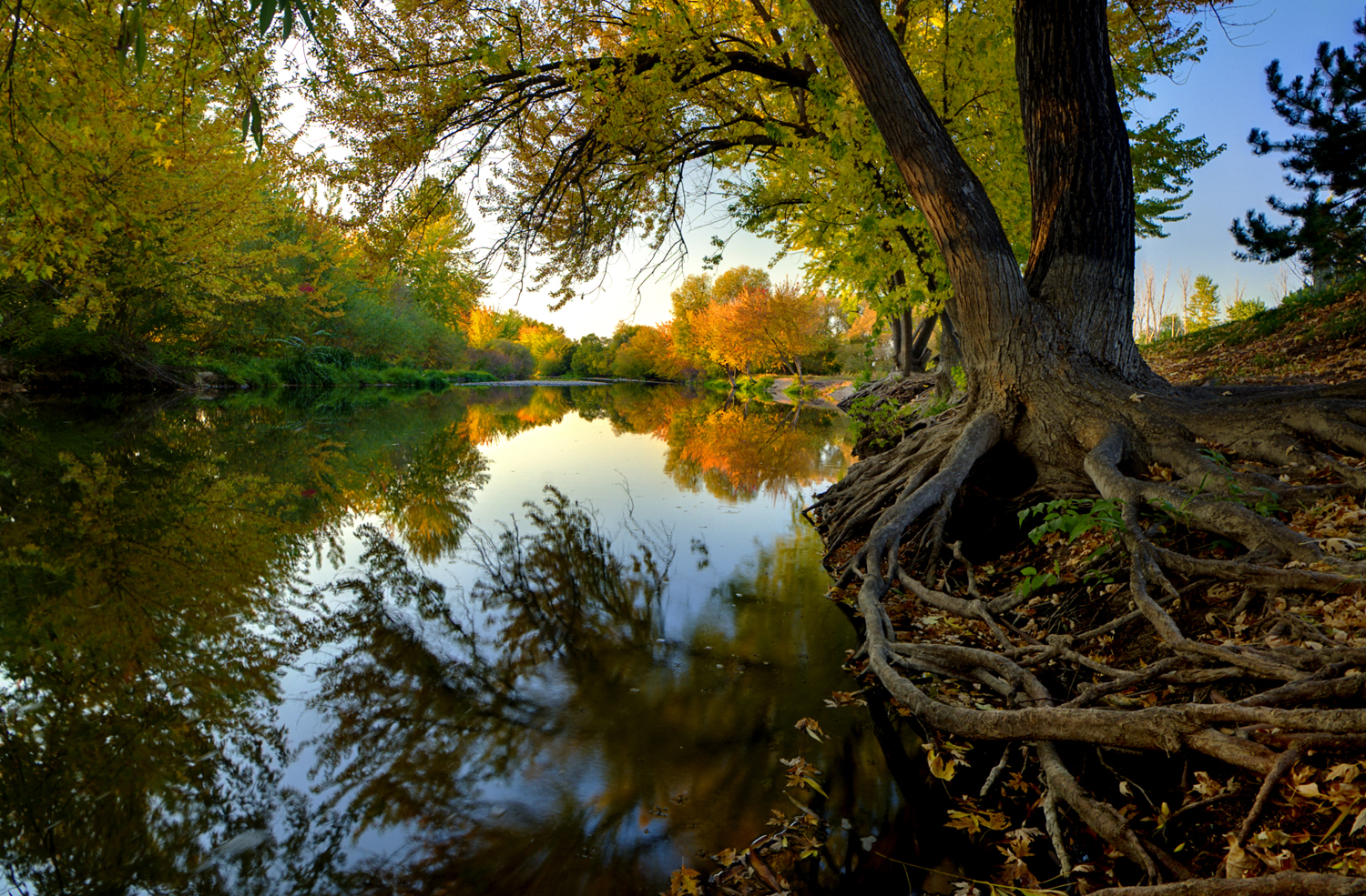 I discovered this treasure along the Boise river last winter. I have been waiting for Fall to arrive to revisit it. I missed the peak by a few days here, not it is only 10 mins from my house, so I will be back if the skies cooperate. By the way, This is an HDR.